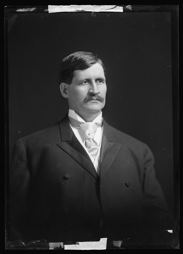 William H. Flack photographed in C. M. Bell Studios